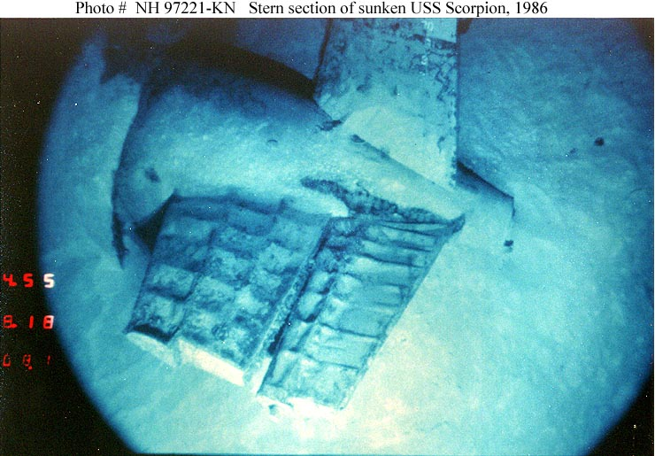 Navy photo of Scorpion's stern (wreck)